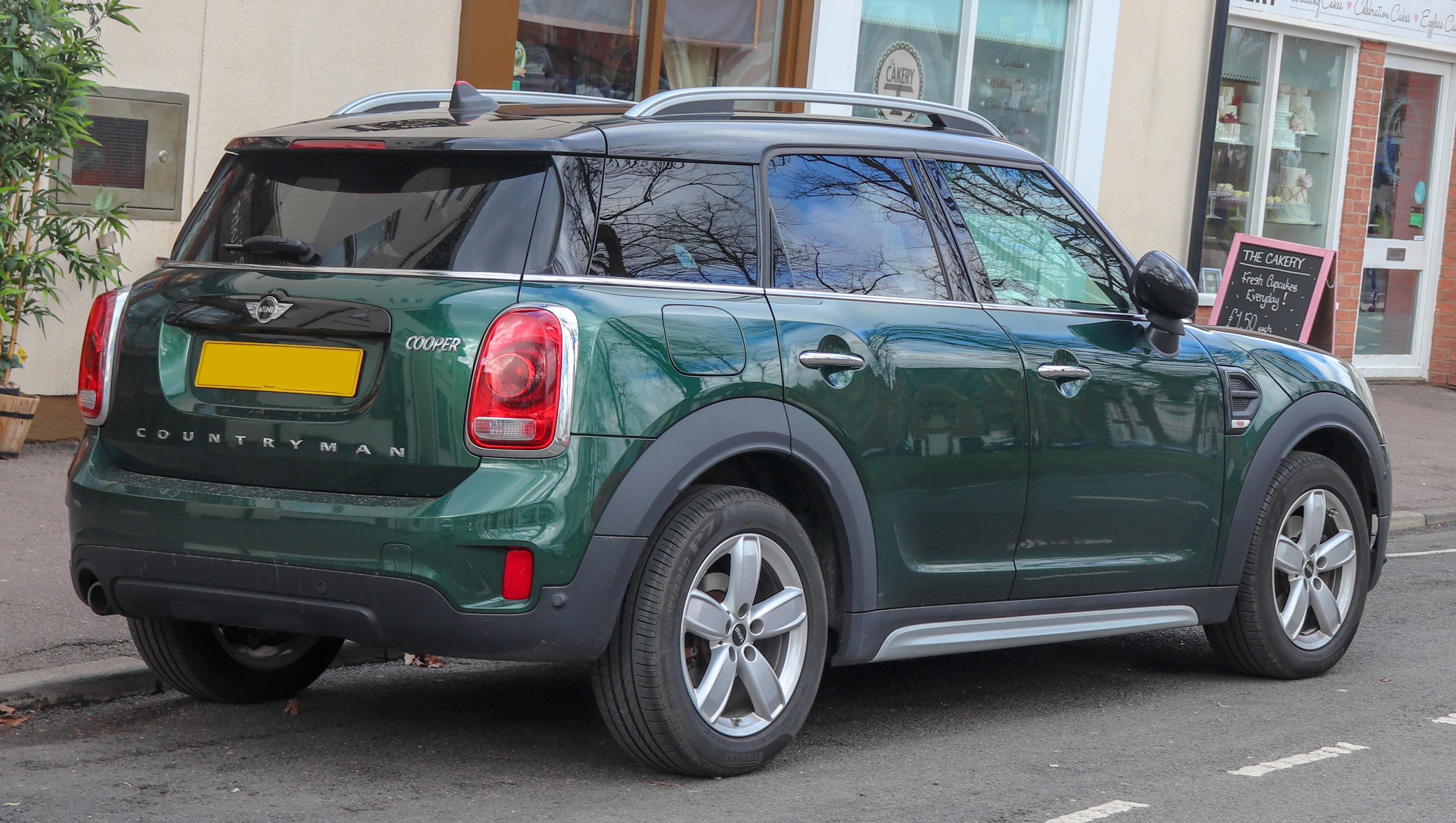 2018 Mini Countryman Cooper Automatic 1.5 Rear Taken in Leamington Spa